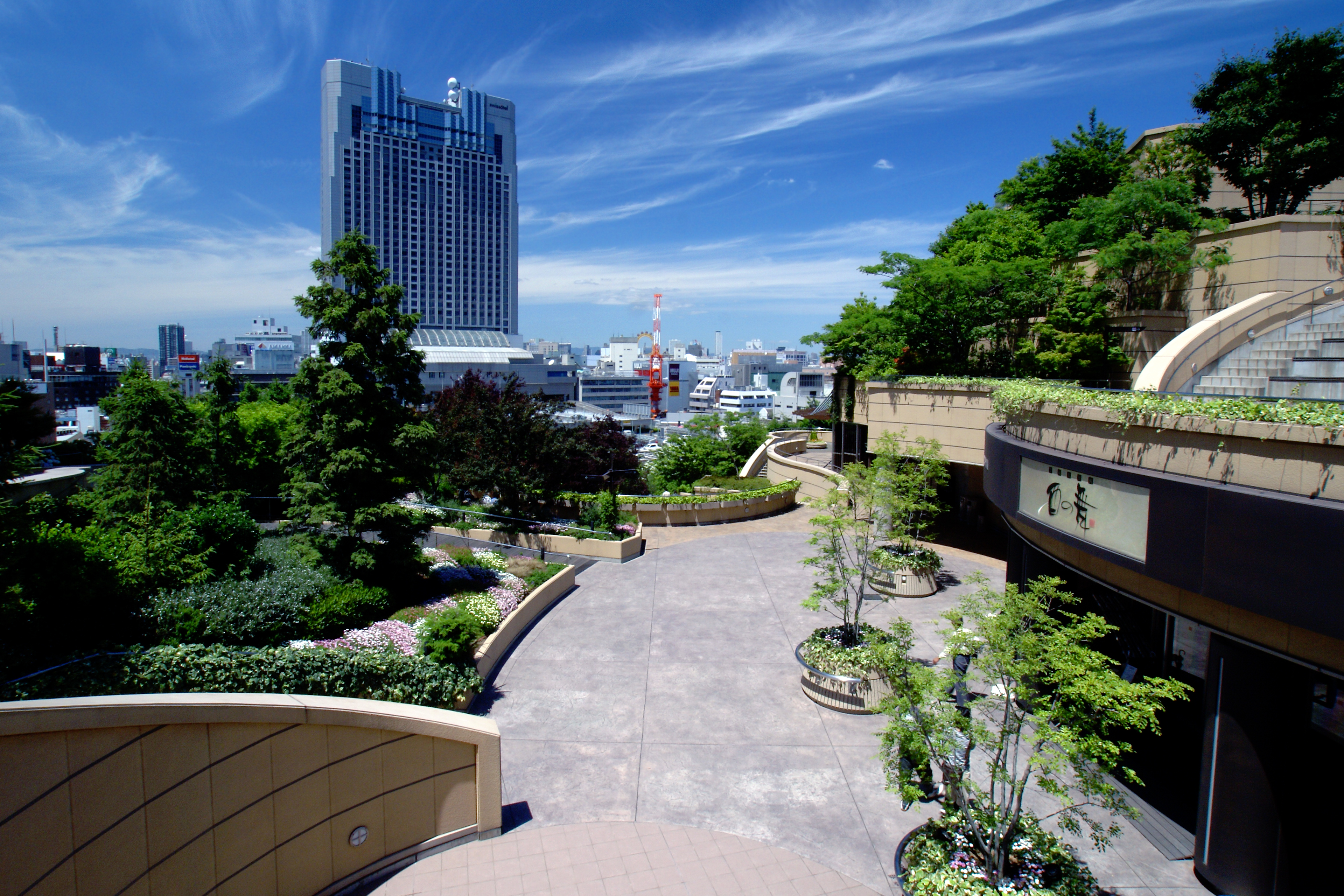 At Namba Parks in Osaka, Osaka prefecture, Japan